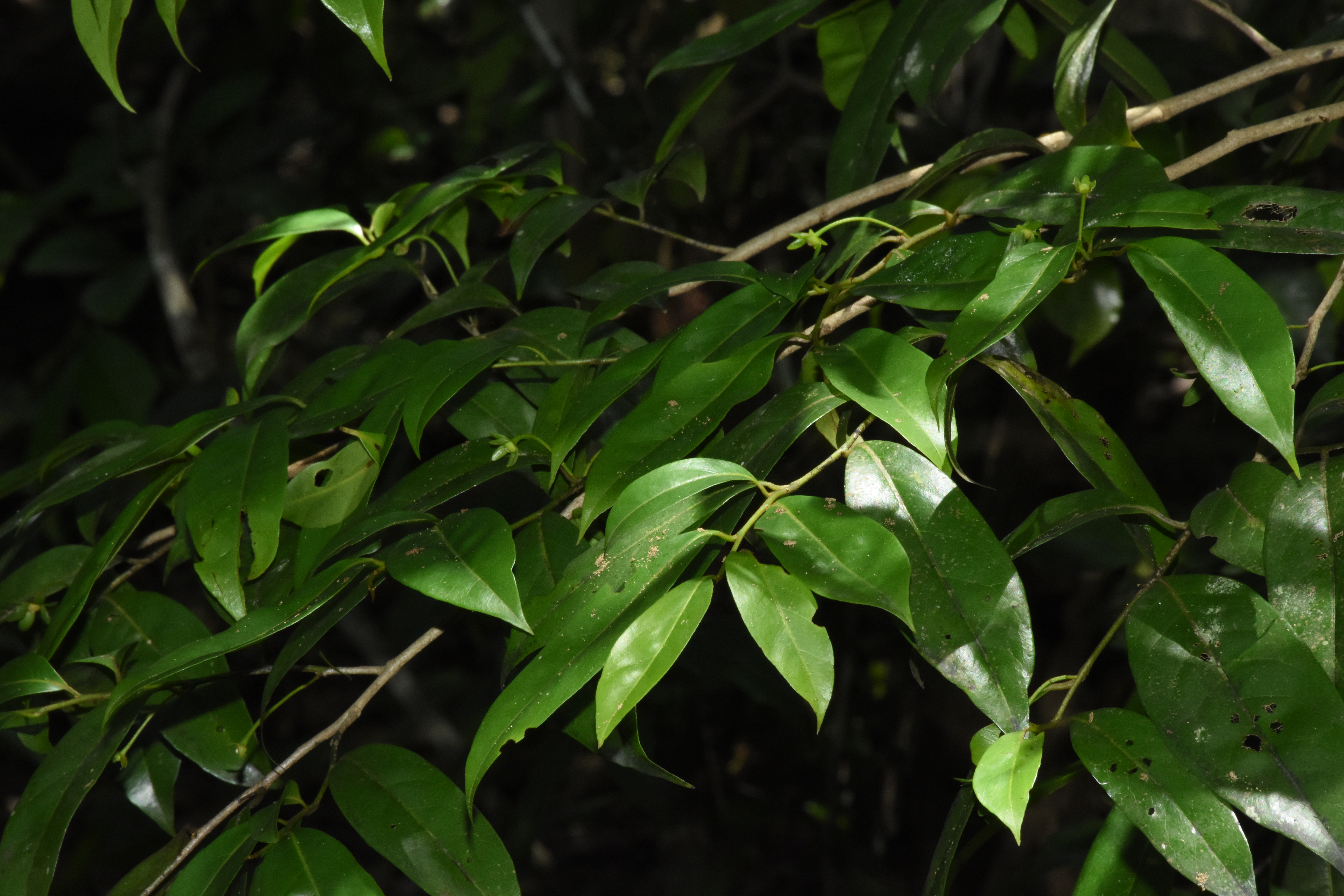 greenish white flowers are seen in this season